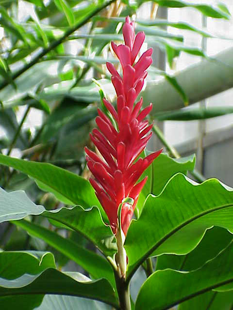 Species: Alpina purpurata purpurata Family: Zingiberaceae Image No. 1